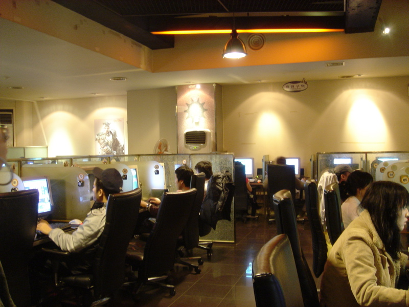 Here's what many young people in Seoul do for fun on a Friday night (and every other night) - go to a "PC Bang", which is basically an internet cafe designed to accommodate online gamers.